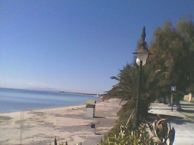 Kalyves main beach with the old windmill Molyvopyrgos in the background